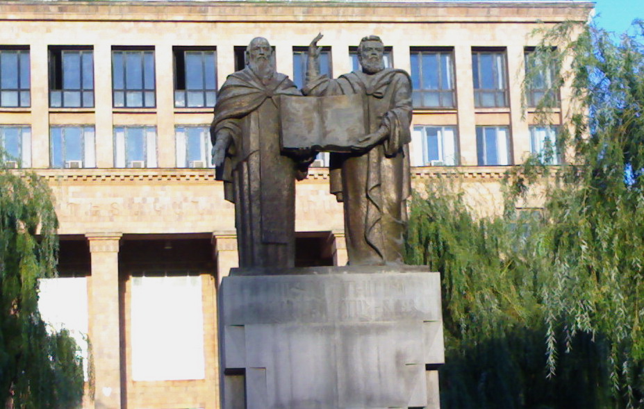 Surp Sahak and Surp Mesrop